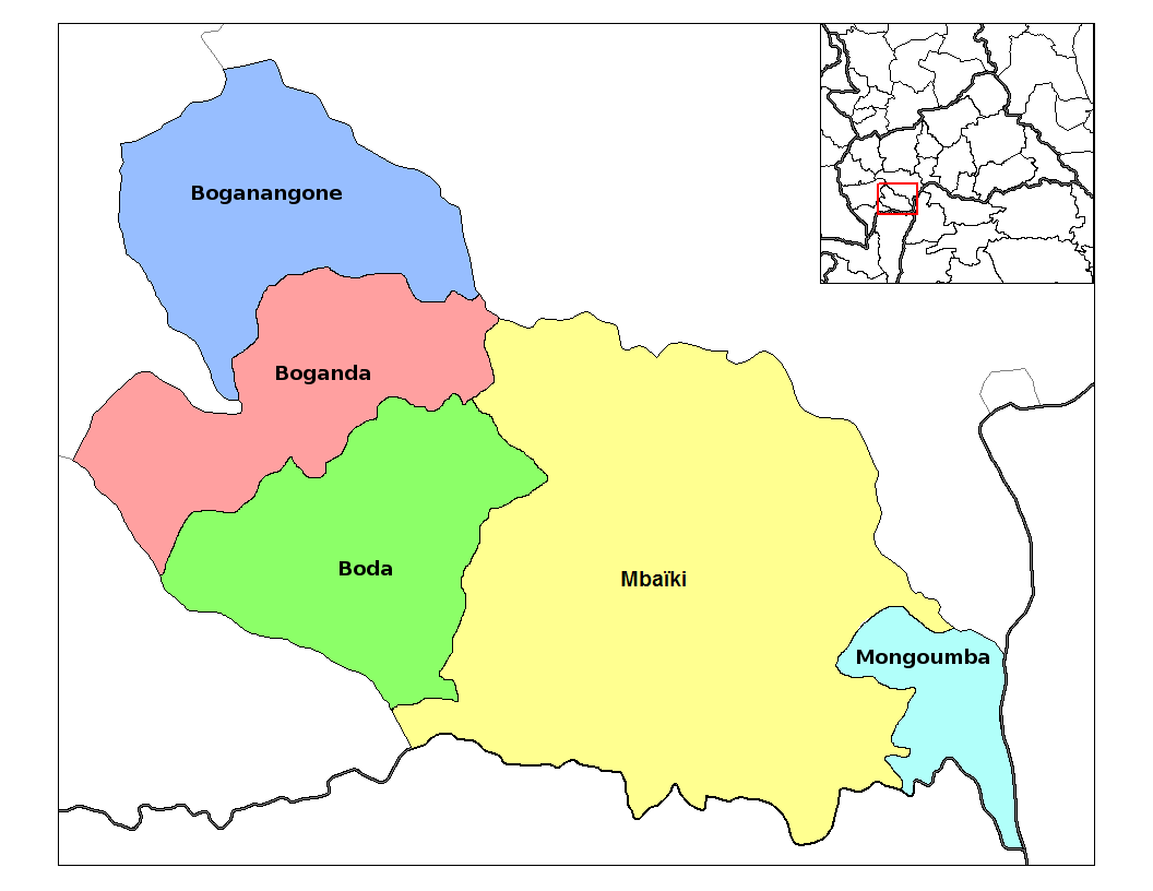 Map of the sub-prefectures of Lobaye prefecture in the Central African Republic. Created by Rarelibra 20:10, 31 August 2006 (UTC) for public domain use, using MapInfo Professional v8.5 and various mapping resources.